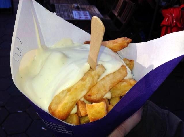 French fries with weed sauce (non-THC) in Amsterdam (2013)